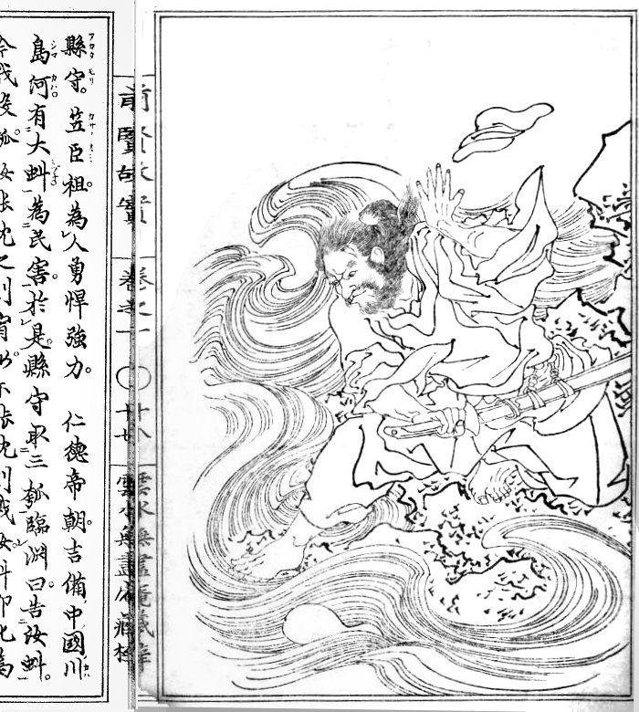 Depiction of Agatamori (縣守) slayer of mizuchi dragons (described in Nihon shoki. Calabash floats on water. From Kikuchi Yosai (d.1878)'s Zenken kojitsu (spine label says vol. 1, no.18), facsimile from: Kikuchi, Yōsai 前賢故實: 考證(Zenken kojitsu: kōshō)